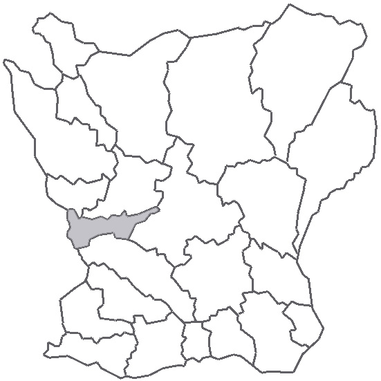 Map describing the location of Harjager Hundred in the province of Skåne, Sweden.